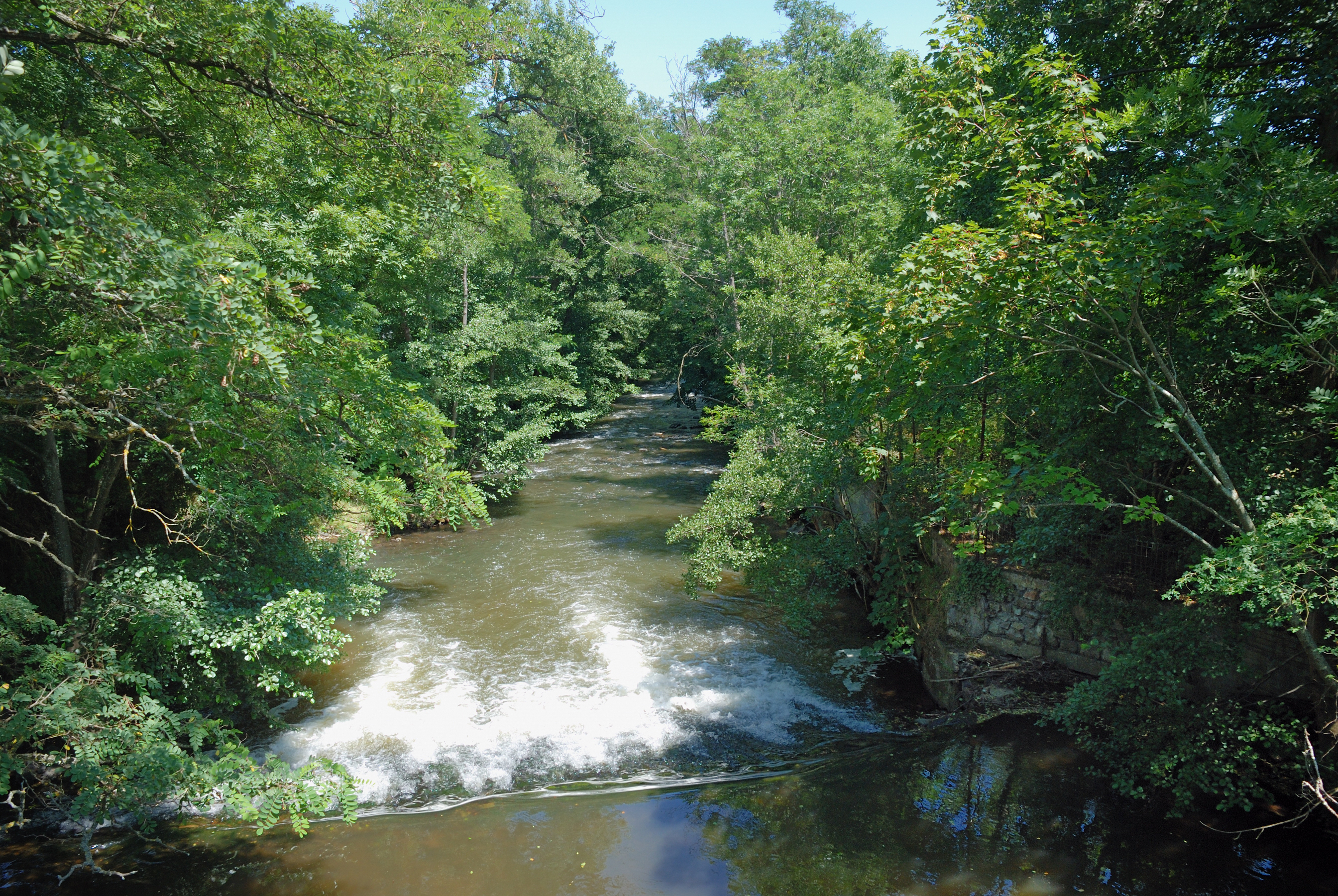 The Couze Chambon river before Champeix and after Montaigut-le-Blanc (Puy-de-Dôme, France. Translations in other languages are welcome.